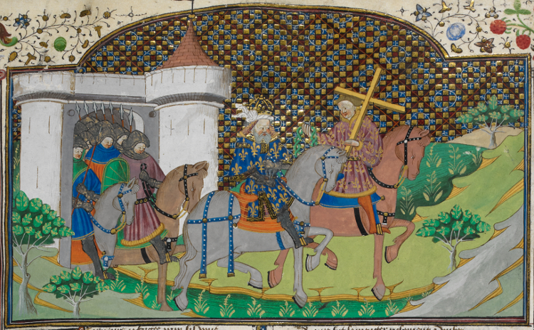 Charlemagne and Fierabras with the relics; detail of a miniature from BL Royal MS 15 E vi, f. 70r (the "Talbot Shrewsbury Book"). Held and digitised by the British Library.